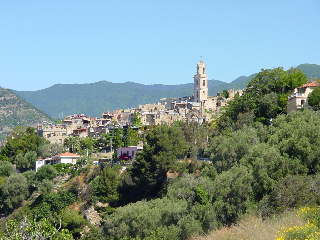 Panorama from the road